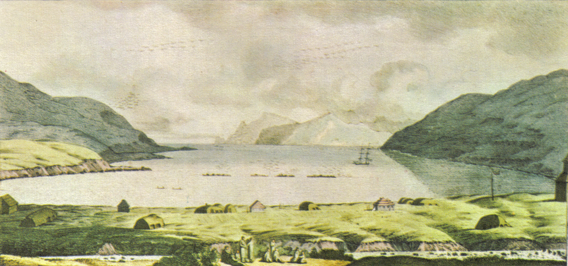 The Port of Unalaska as seen by Louis Choris in late summer 1816.